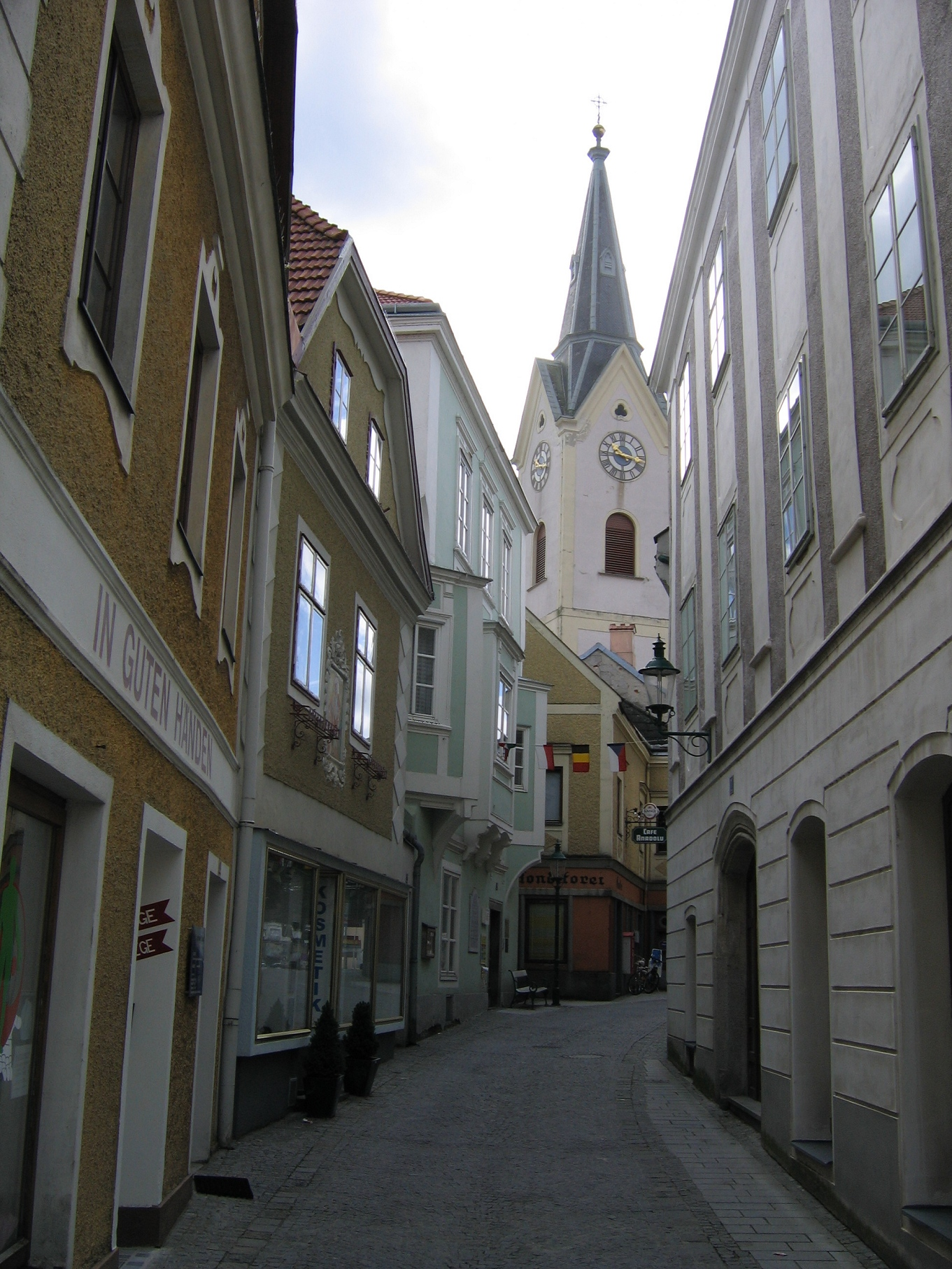 lane in Ybbs, Austria